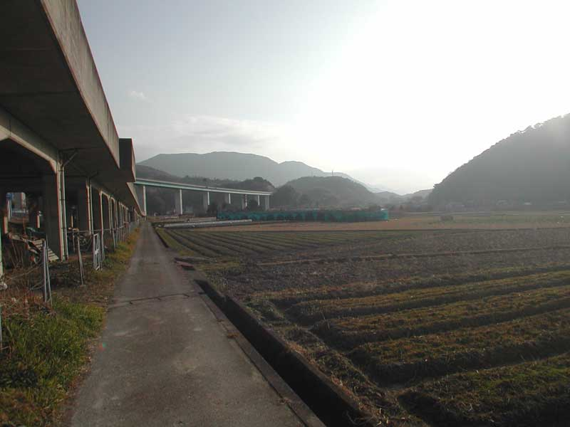 Place of Fukuoka's family farmlands, now farmed in a modern, conventional manner.